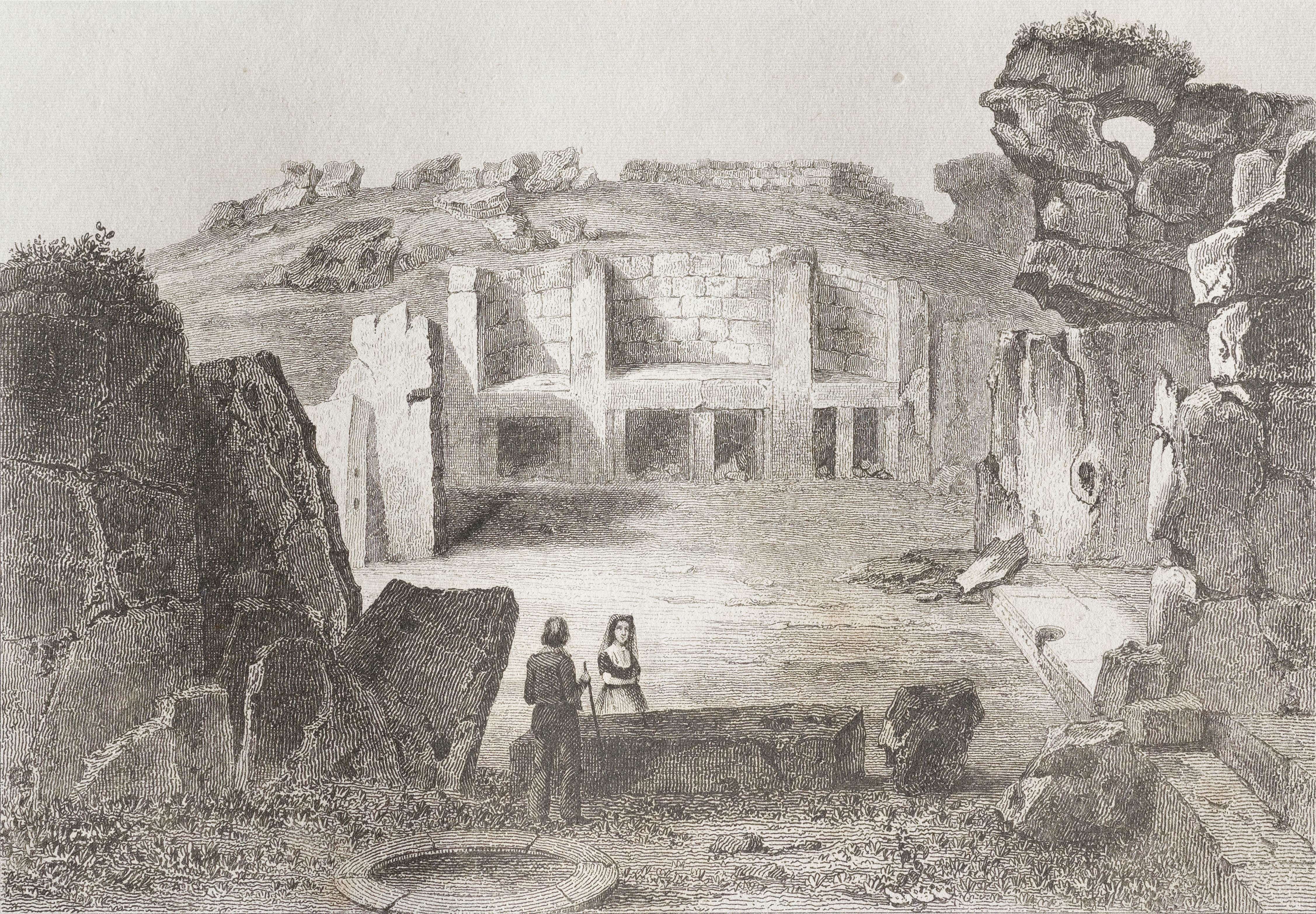 A view of the Ġgantija megalithic temple in Gozo, Malta, from the series L'Univers pittoresque.